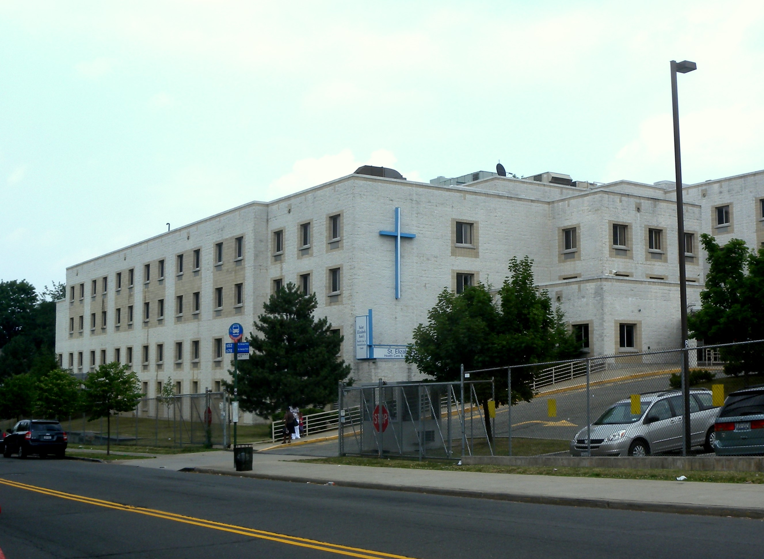 Looking north at Elizabeth Ann Hospital Center and Rehabilitation on a cloudy midday.